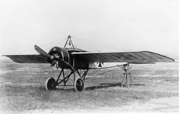 PictionID:43637958 - Catalog:16_004564 - Title:Pfalz E.I 1915 Nowarra photo - Filename:16_004564.TIF - - - - - - - Image from the Ray Wagner Collection. Ray Wagner was Archivist at the San Diego Air and Space Museum for several years and is an author of several books on aviation --- ---Please Tag these images so that the information can be permanently stored with the digital file.---Repository: San Diego Air and Space Museum